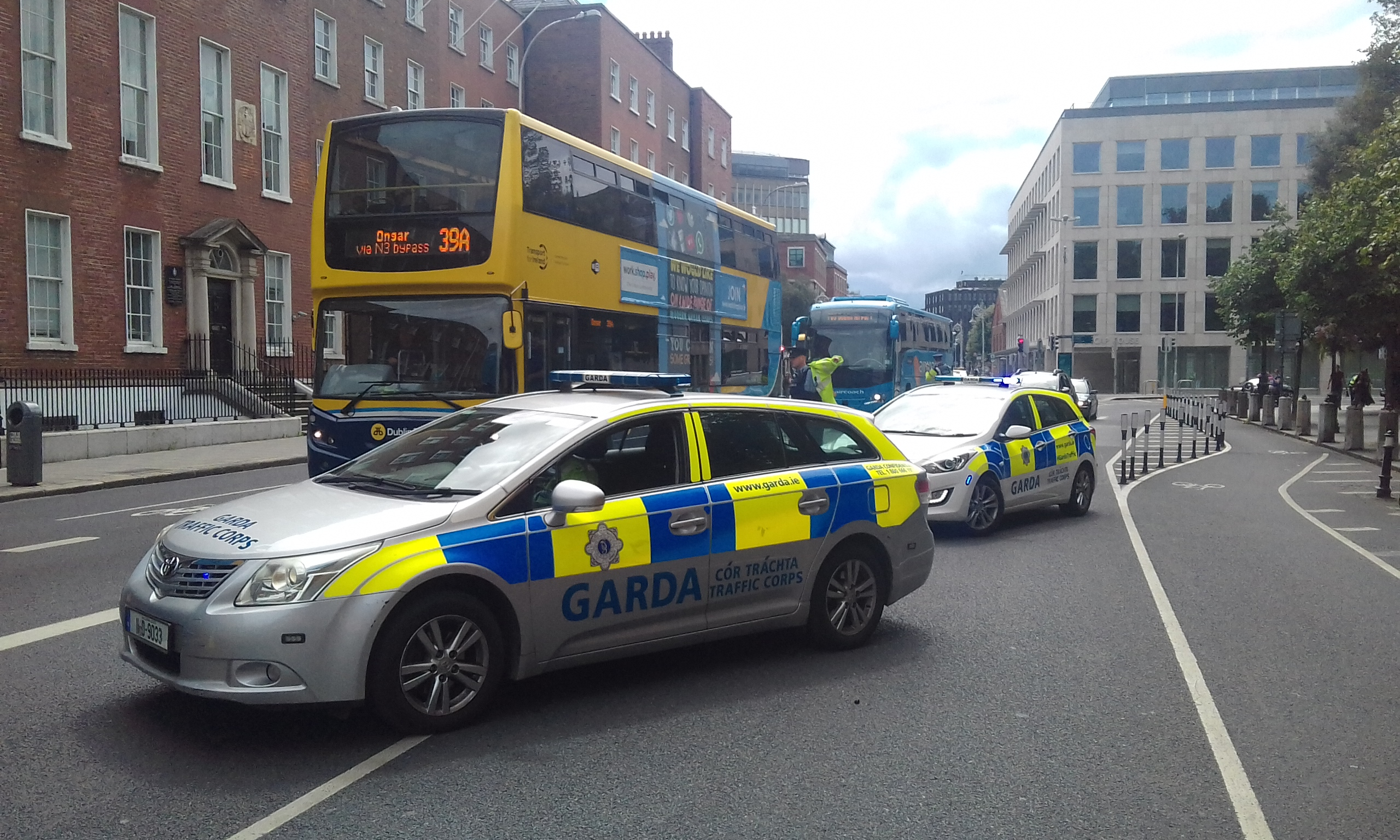 Two Pearse Street Divisional Garda Traffic Corps Hyundai vehicles restricting one lane of traffic at St. Stephen's Green, Dublin during a cultural event.